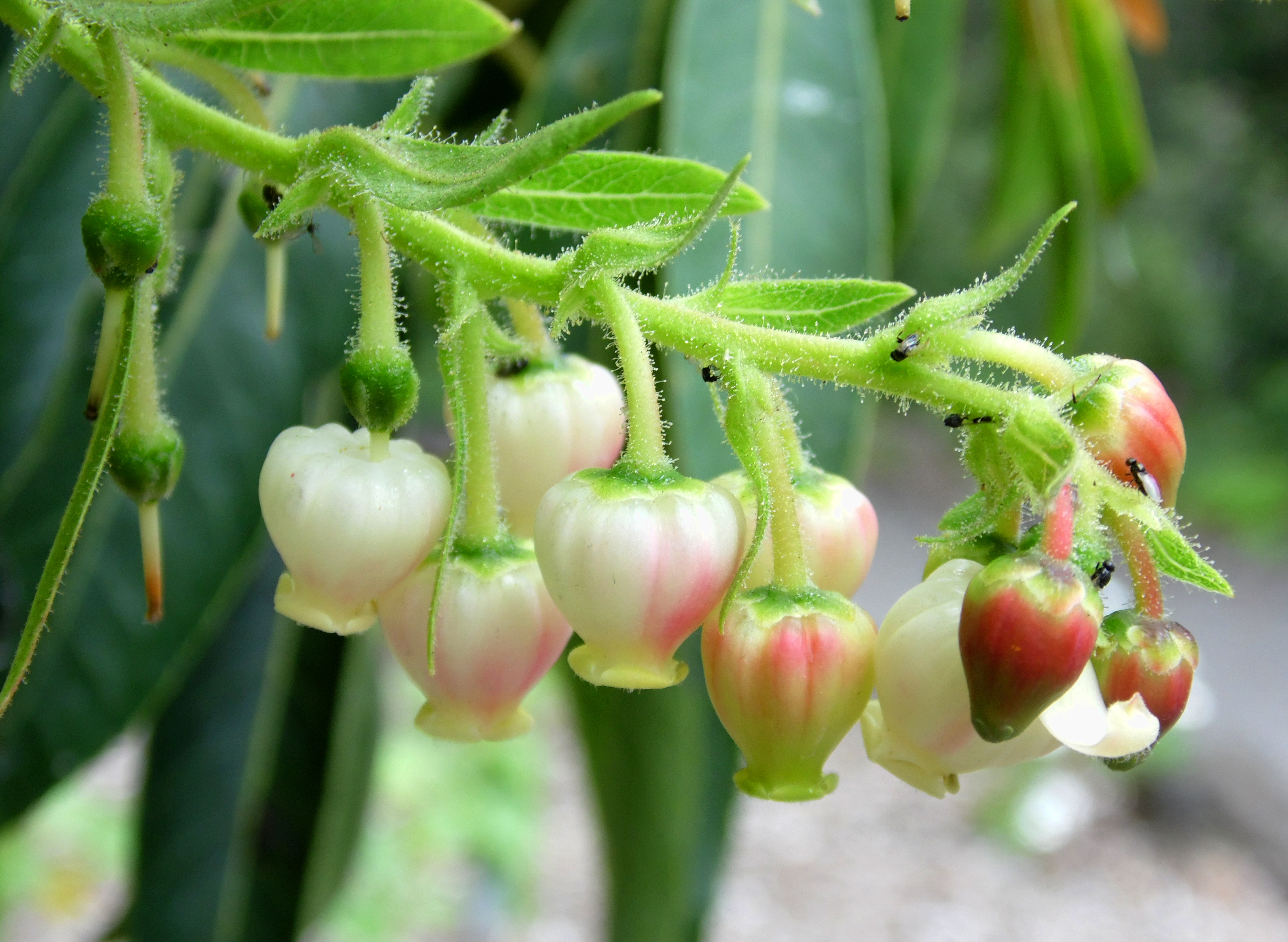 Arbutus canariensis in Jardín Botánico Canario Viera y Clavijo